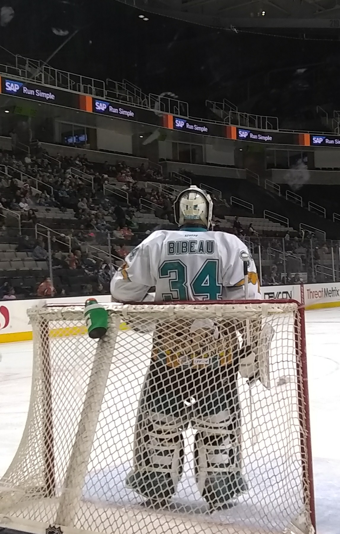 Bibeau stands with his back to the net waiting for a face-off on Teddy Bear Toss night for the San Jose Barracuda of the AHL.